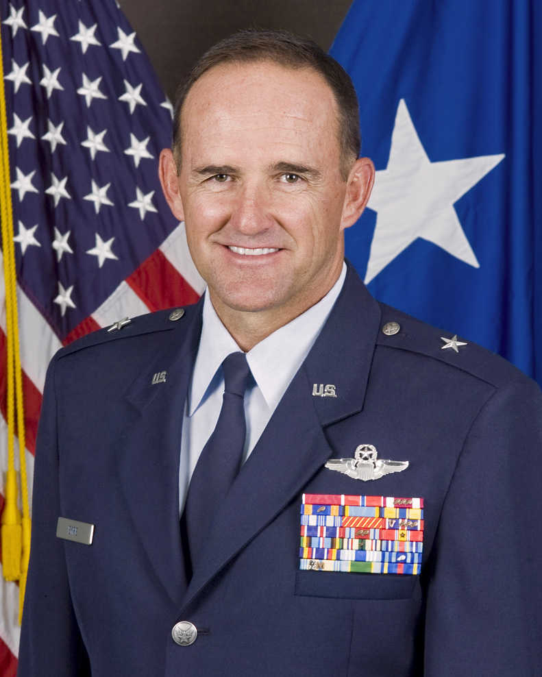 Trulan Eyre